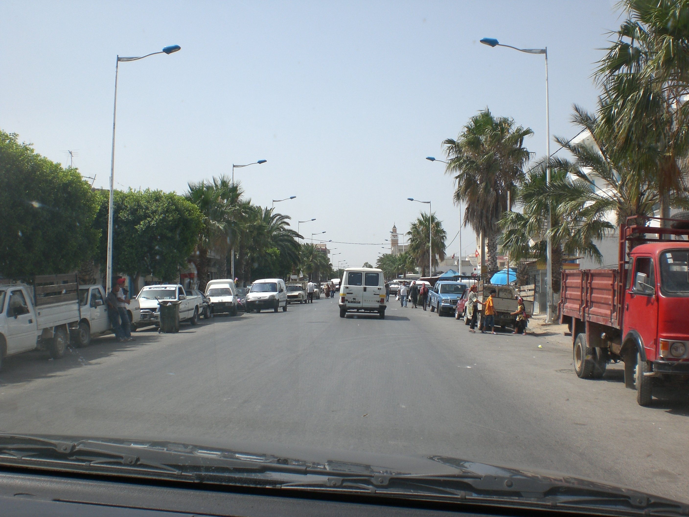 A photo of Fahs, Tunisian town